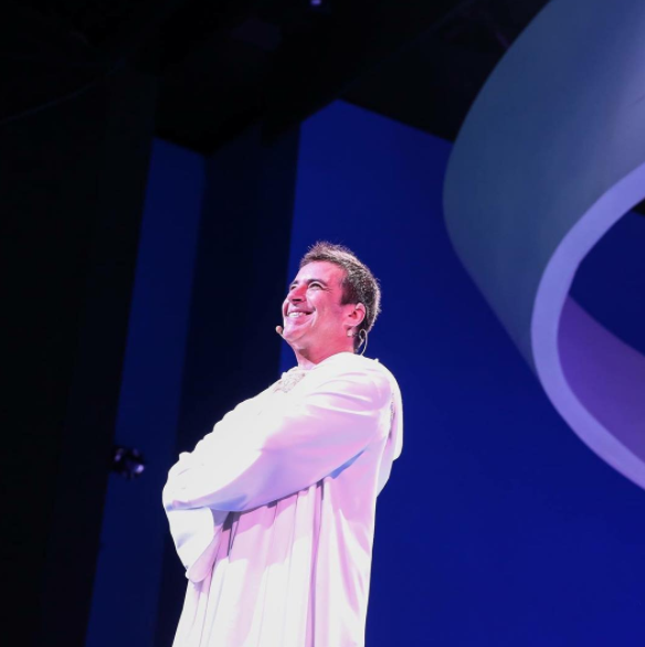 Carlos Carlin es Dios, en "Un Acto de Dios"